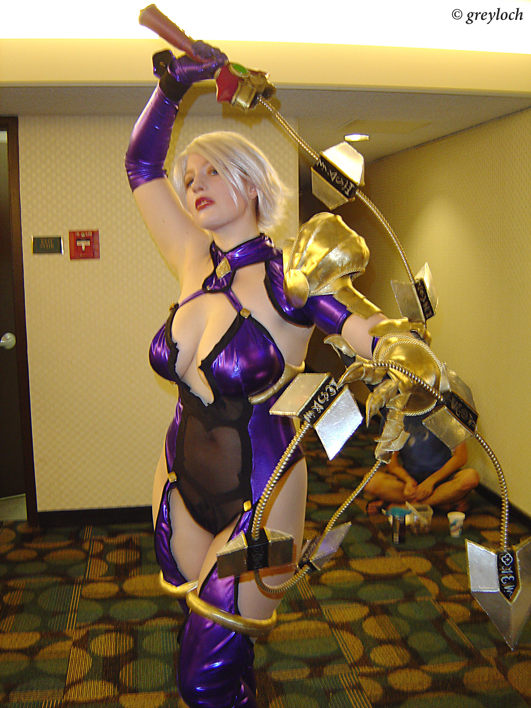 Belle Chere as Ivy Valentine, a Soul Caliber II character.